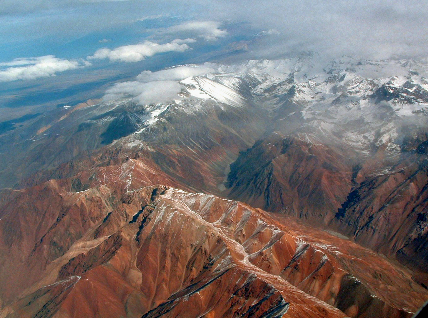 The Andes. Photo was taken on a flight between Asuncion, Paraguay and Santiago, Chile, so the exact location is probably in the area between Santiago, Chile and Cordoba, Argentina. This is on the Argentina side. On the left Cordón del Plata, on the right Cordón de la Jaula, between them Quebrada de la Jaula. Cerro Blanco (5127 m a.s.l.) in the foreground.